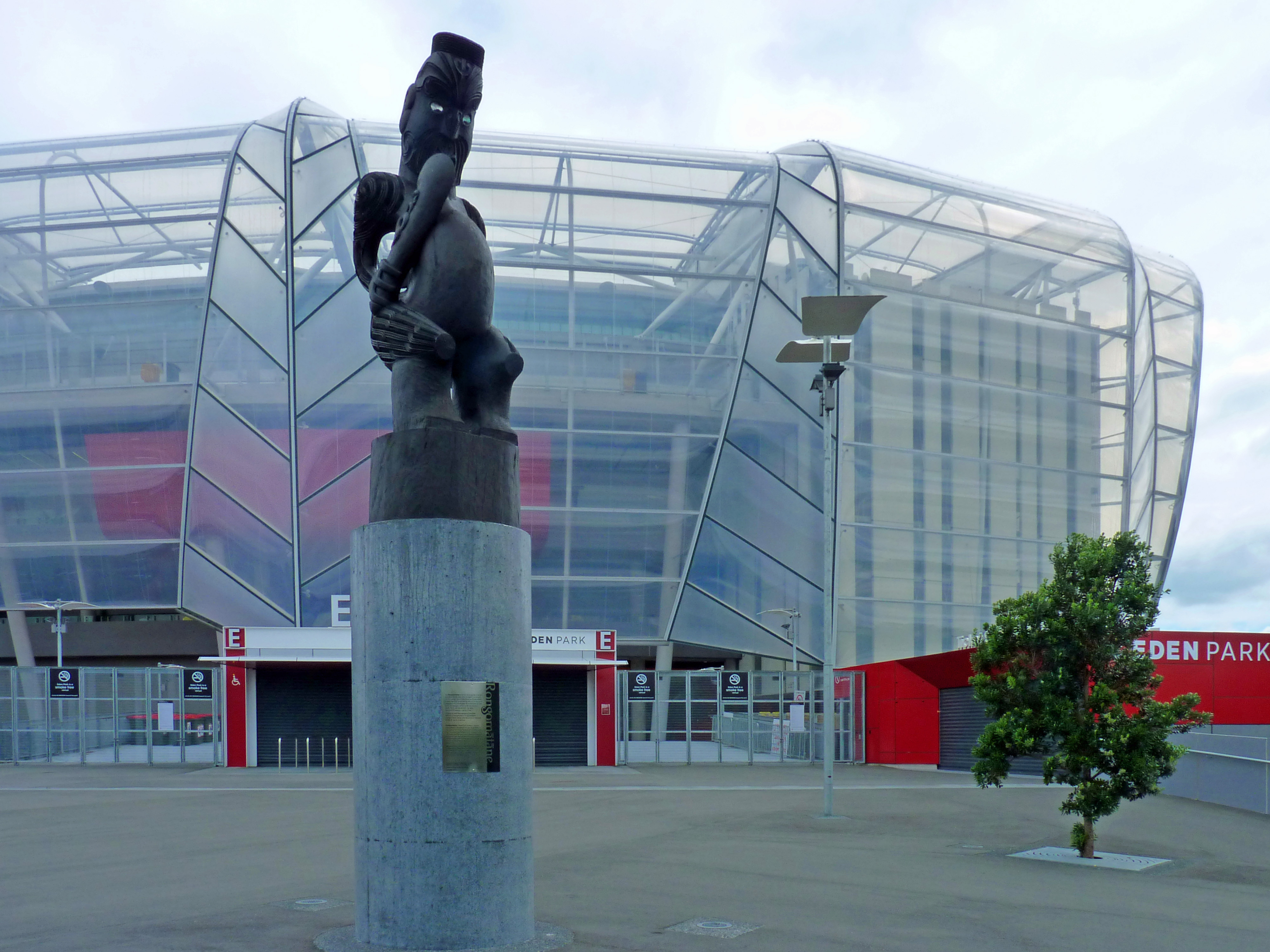 Eden Park with statue of Rongomātāne.